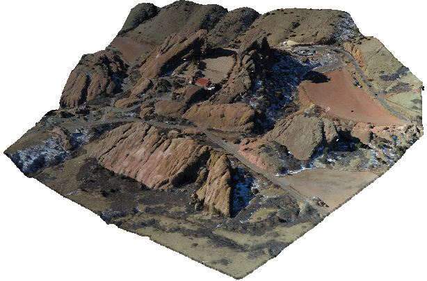 Red Rocks UAV Photogrammetry Mission. Geo-referenced point cloud generated by DroneMapper